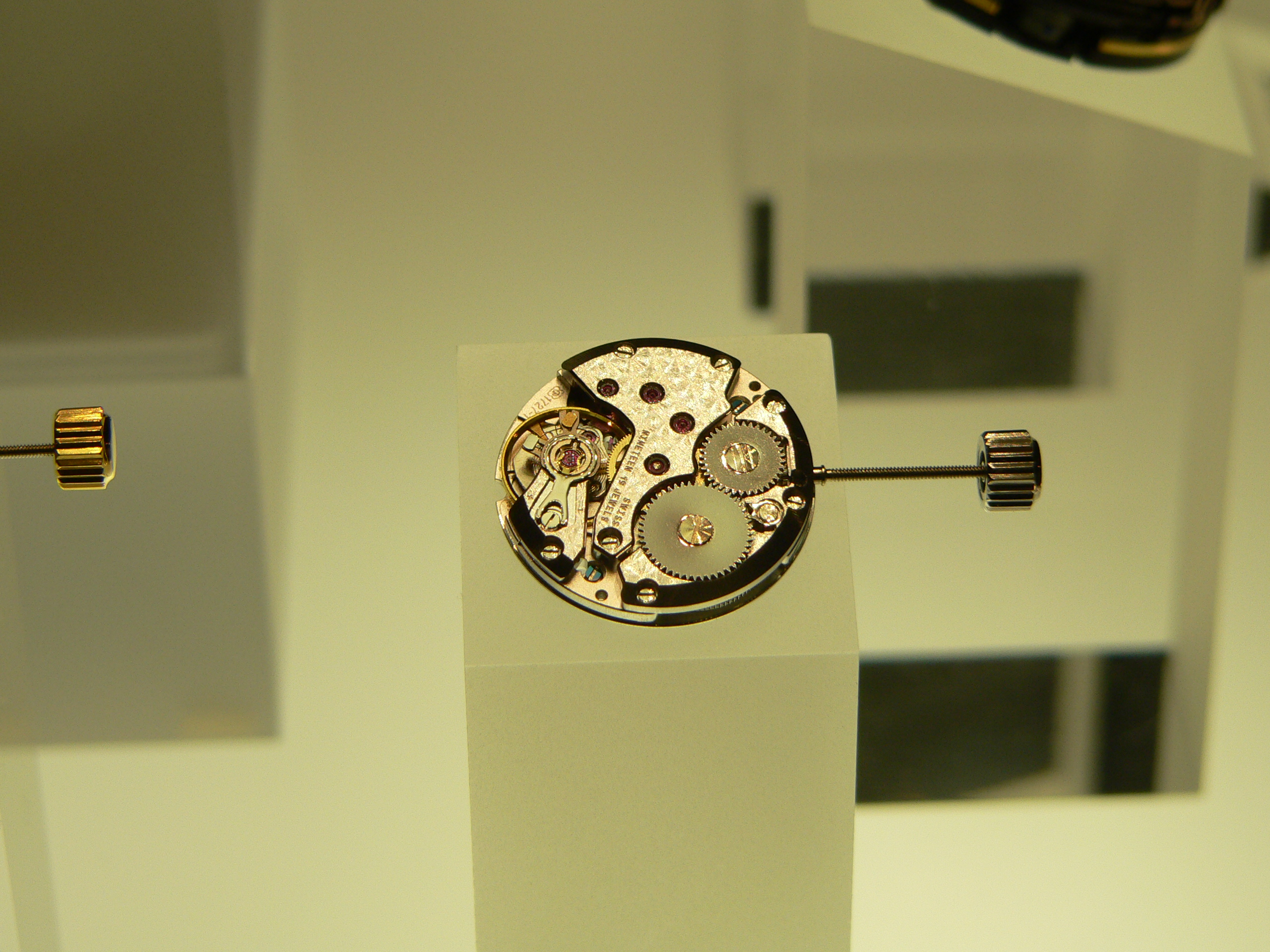 Asulab stand at the EPFL at the 2005 Forum